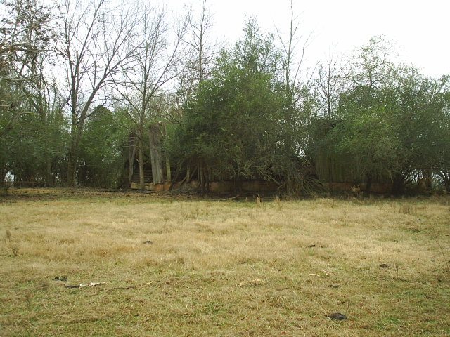 A current picture of the national regstered historic round barn in Villa Rica, GA, showing it's state of disrepair.